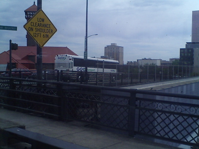 A Washington state plate GEO Transport bus on the Broadway Bridge off-ramp arriving from Tacoma to the Portland ICE building (500 NW Broadway). In the background is the Union Station. Taken from a tramcar on the Portland Streetcar Central Loop line.